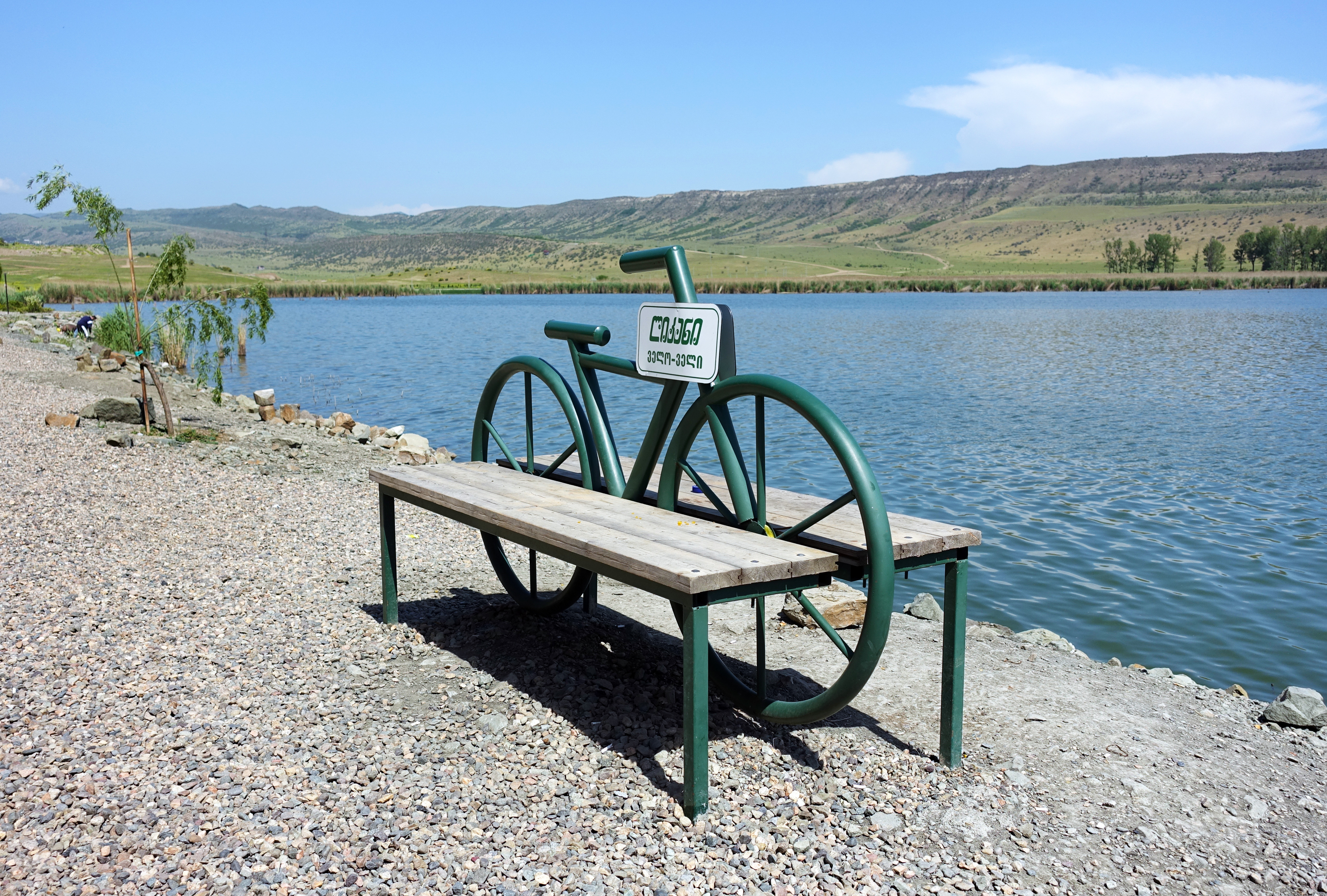 Lisi Lake in Tbilisi, Georgia.